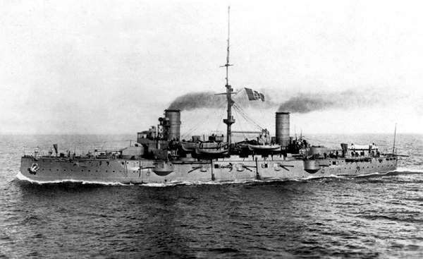 Italian armoured cruiser Giuseppe Garibaldi